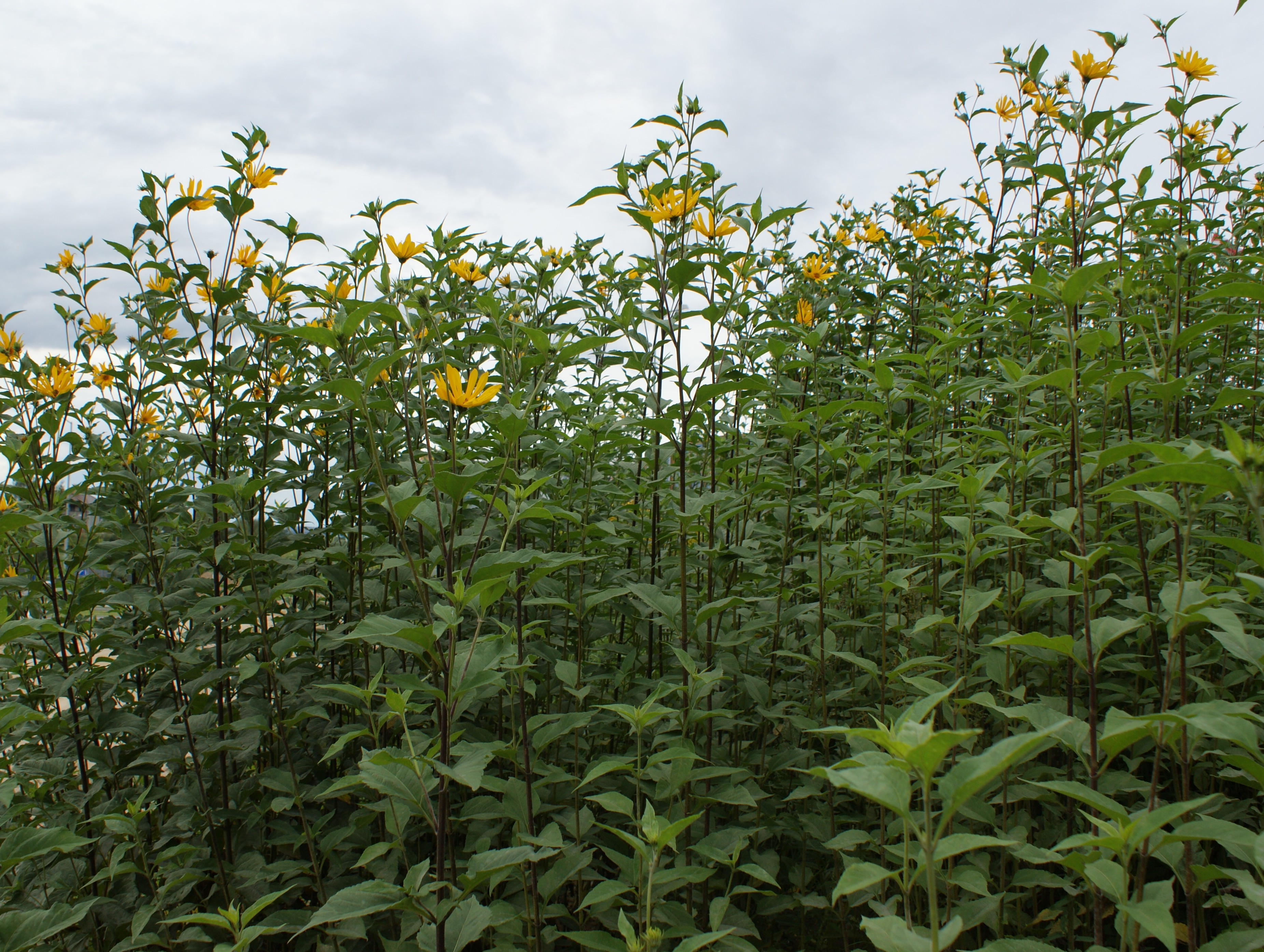 Helianthus tuberosus